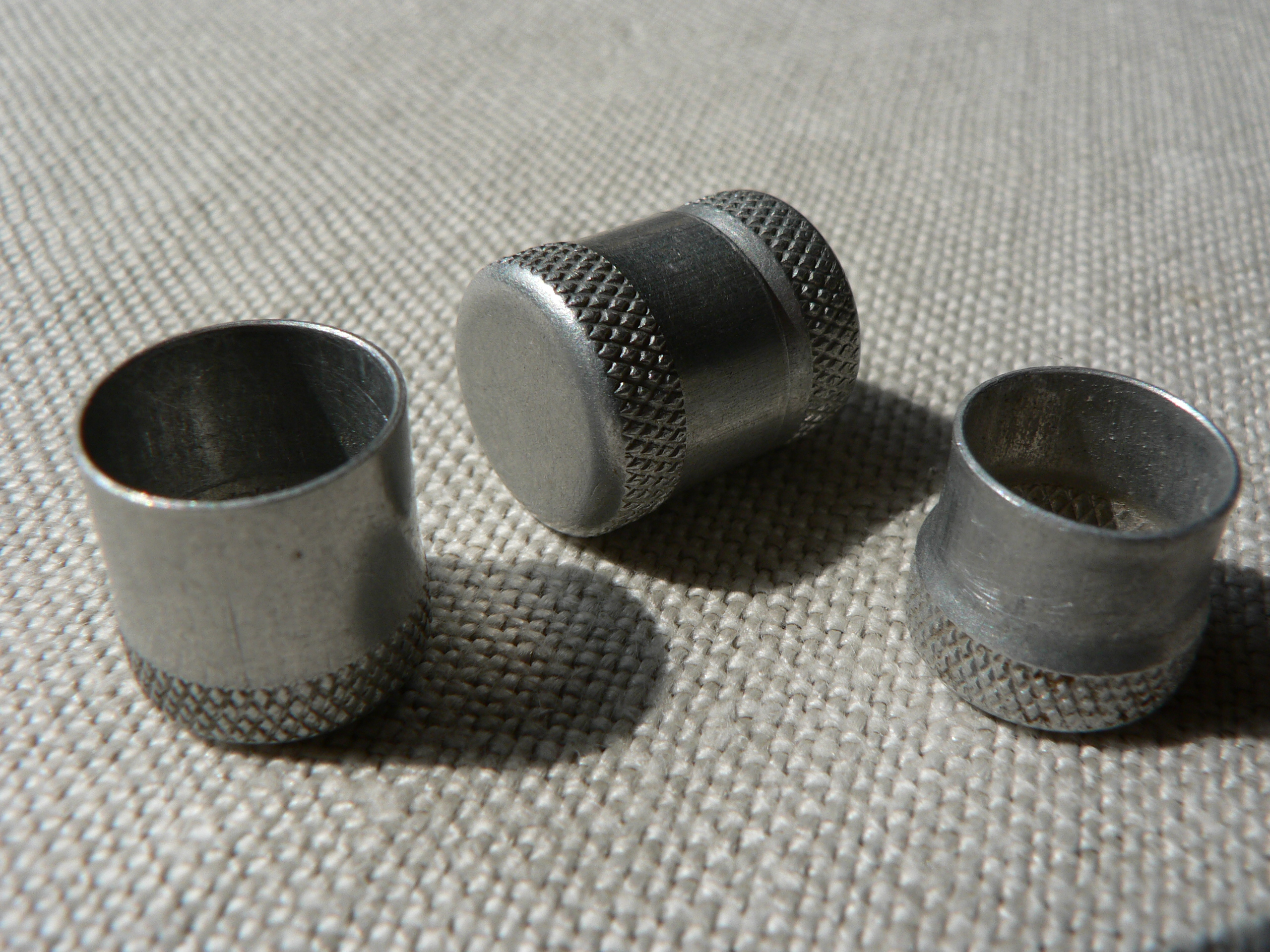 containers for rubber race pigeon rings, Flanders, Belgium